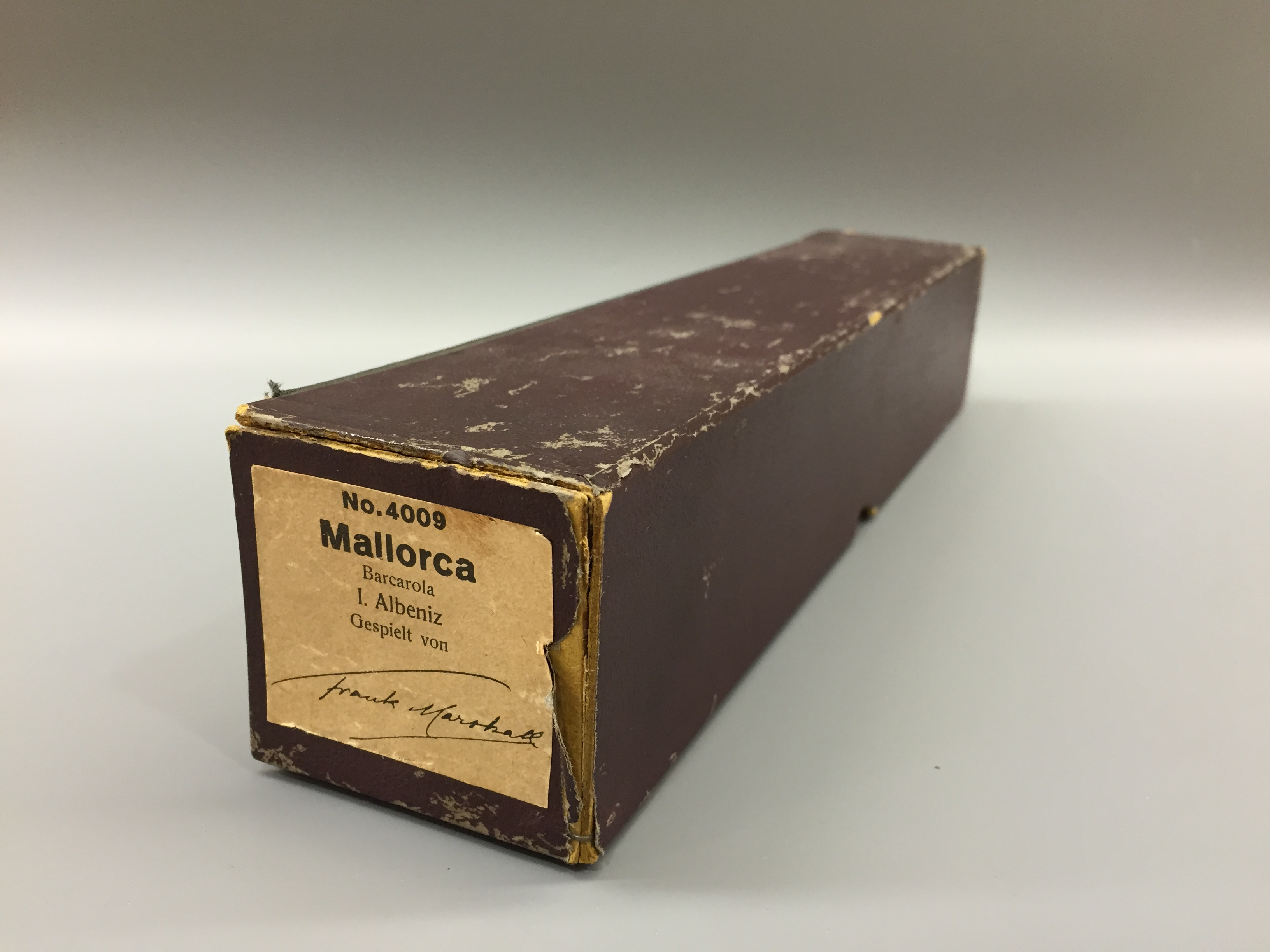 Mallorca, Suite Iberia, Isaac Albéniz, played by Frank Marshall, artist piano roll